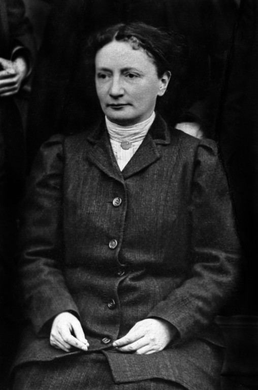 Photograph of the German archaeologist Elvira Fölzer (1868-1928), taken in Trier